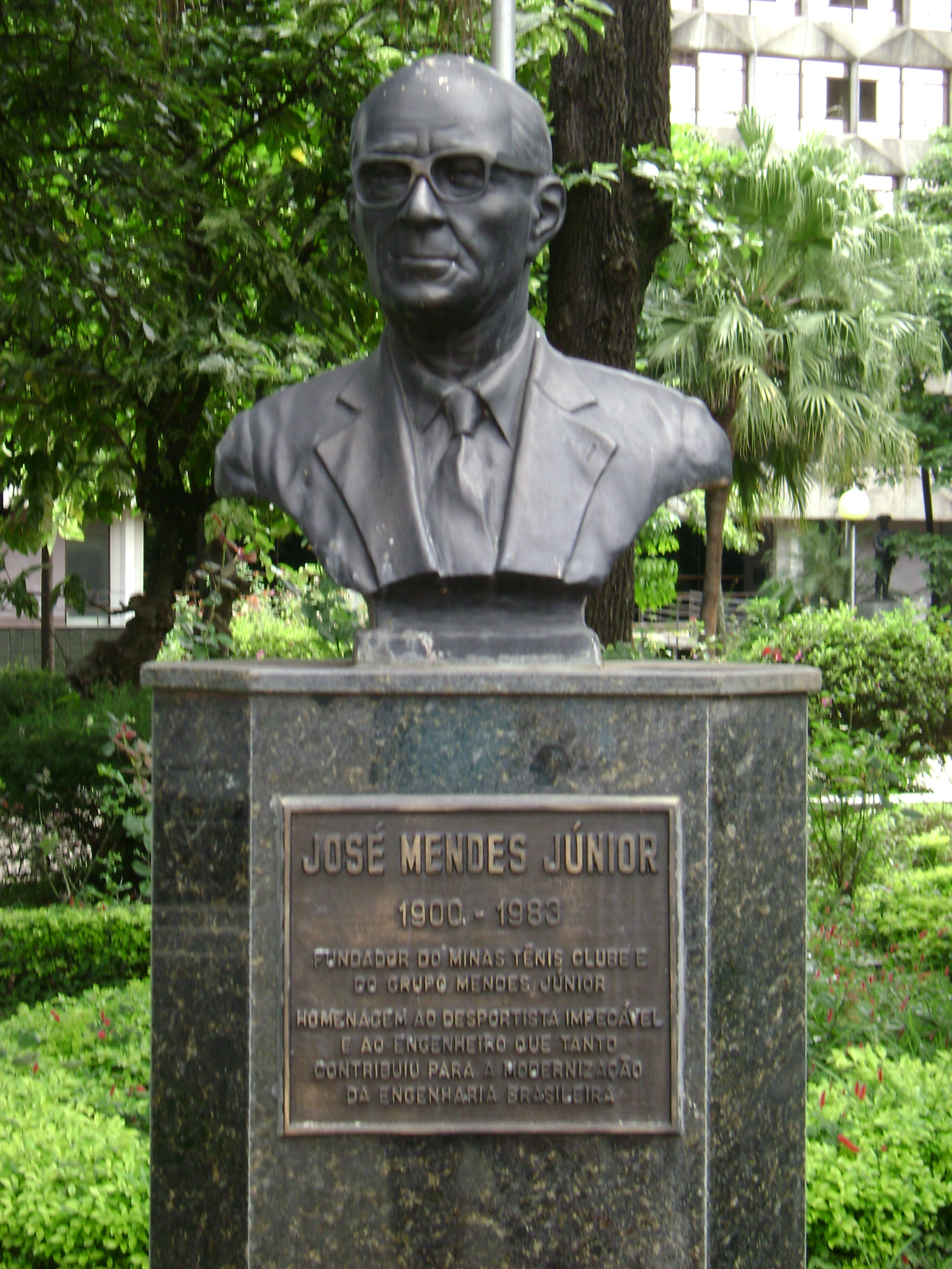 Statue of José Mendes Júnior, at the square of same name, in Belo Horizonte.